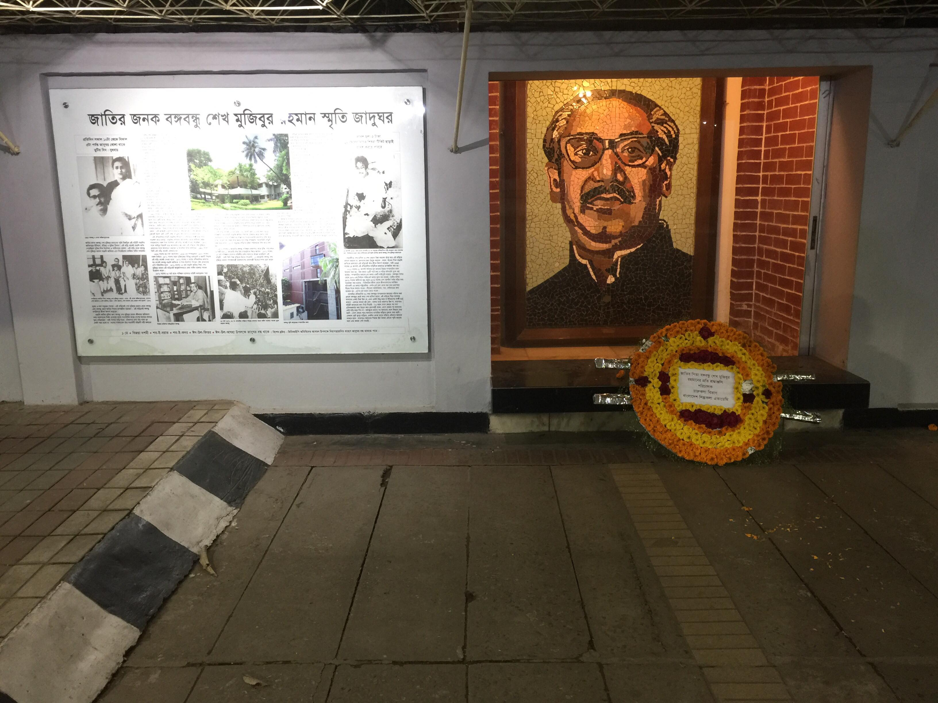 Bangabandhu Sheikh Mujibur Rahman memorial museum front gate, Dhaka